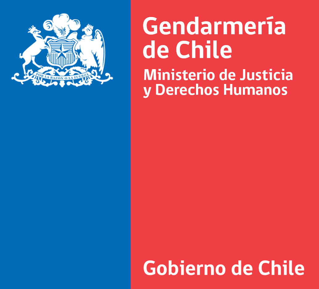 Institutional logo of Gendarmerie of Chile.